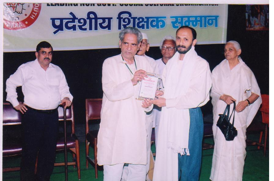 Dr. Abraham Amit Receiving The U.P. Shikshak Samman Award From Gopaldas Neeraj